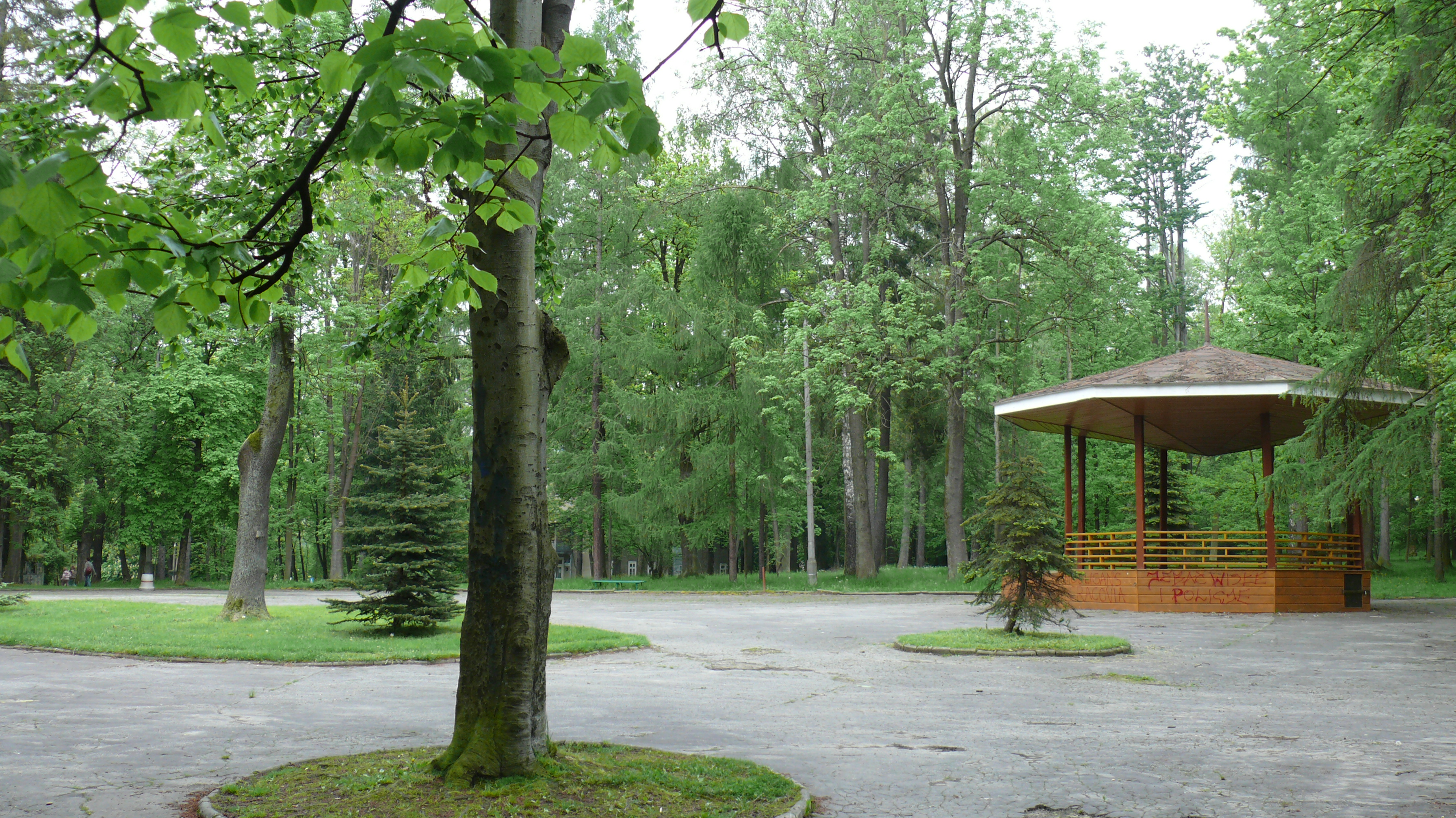 Spa park, Rabka Zdrój (Poland)